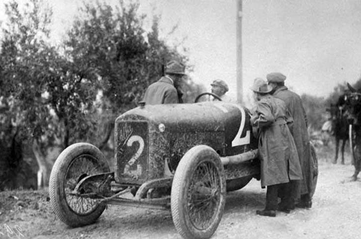 Entry #2 at Targa Florio on Sicilia on 24 October 1920 was Giuseppe Campari in Alfa Romeo 40/60 HP. He did not finish.[1]